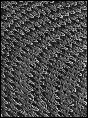 John Heuser's electron microgrpah of an Axostyle